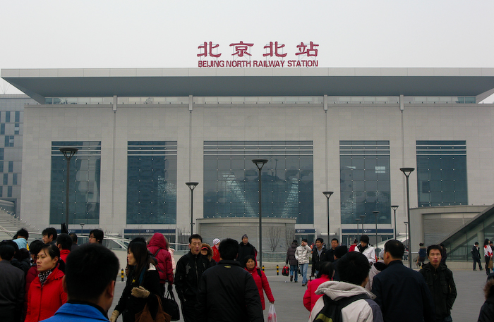 Beijing North Railway Station